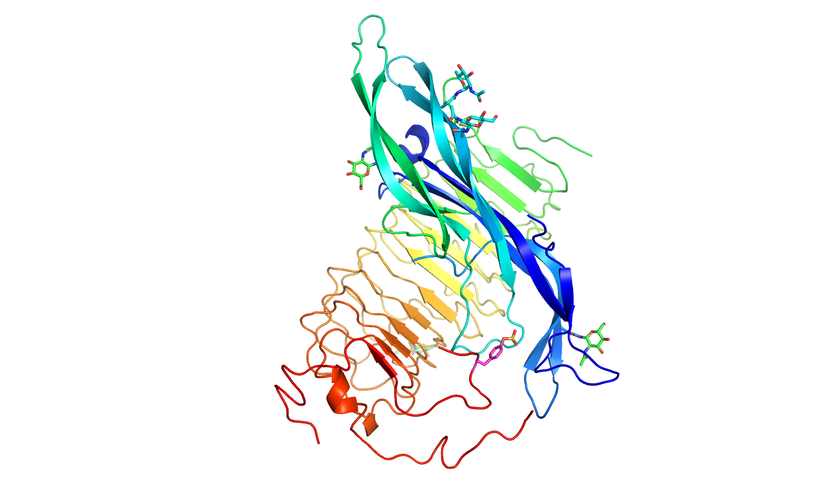 Crystal structure of FSH in complex with FSHR ectodomain